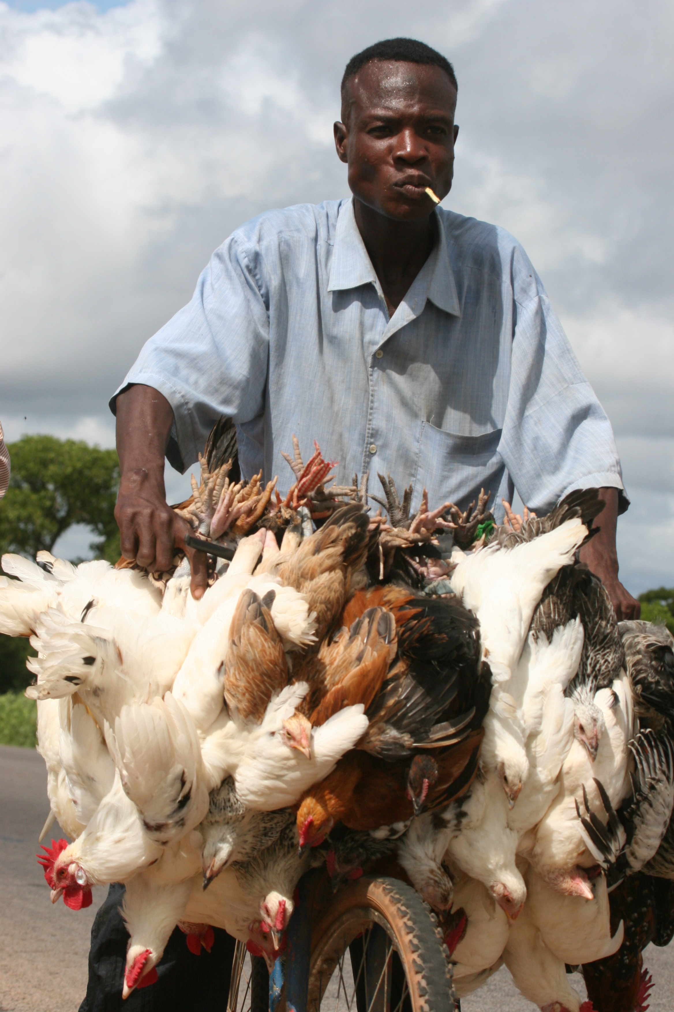 Very original transport of chicken in West Africa. The chicken are still alive, so this guy definitely does not need a bell on his bike.